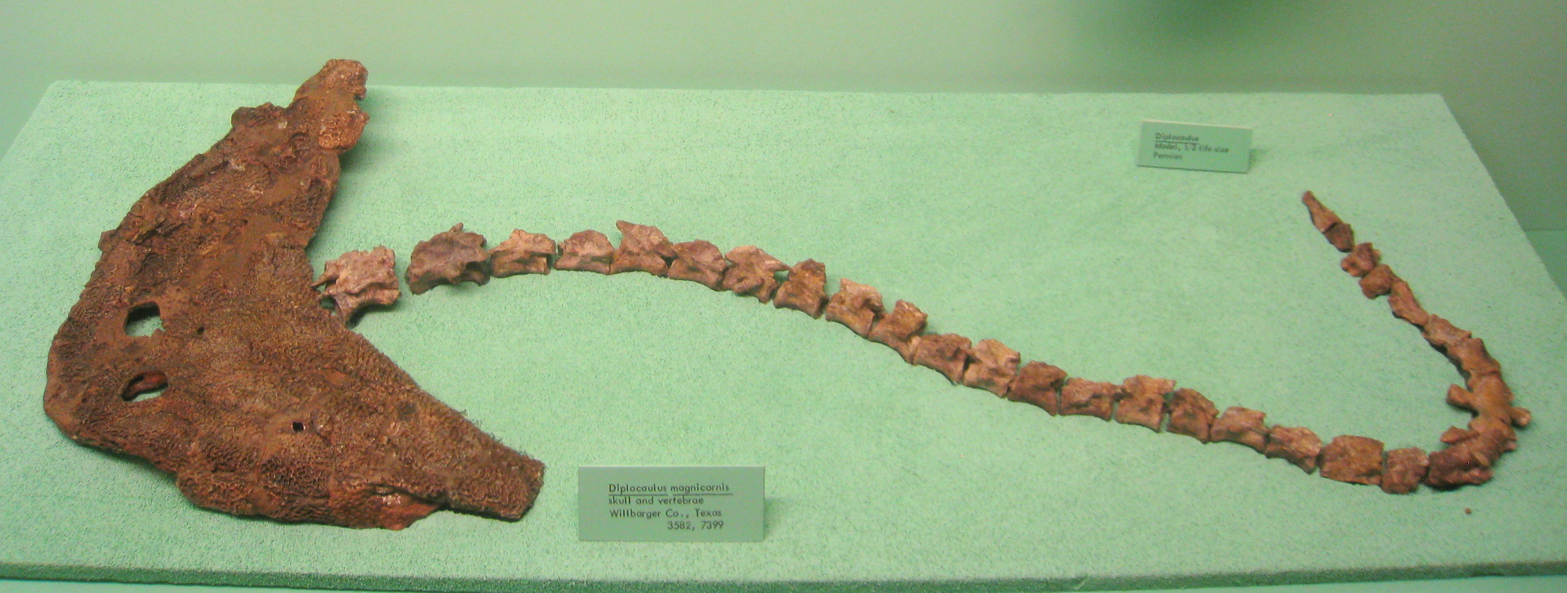 Diplocaulus magnicornis. Exhibit Museum of Natural History, University of Michigan, 1109 Geddes Avenue, Ann Arbor, Michigan, USA.